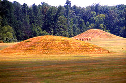 Two of the Pharr Mounds, a Middle Woodland period archaeological site built between 1 and 200 CE and located at mile 286.7 on the Natchez Trace Parkway. It is southeast of Marietta in Prentiss County, Mississippi, United States. The site — which includes several mounds in Itawamba County — is listed on the National Register of Historic Places.